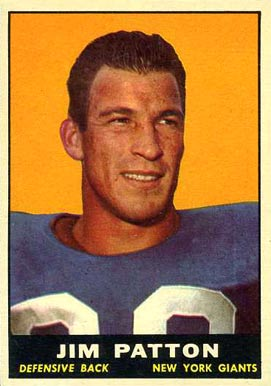 National Football League player Jimmy Patton portrayed on a 1961 Topps football card with the New York Giants